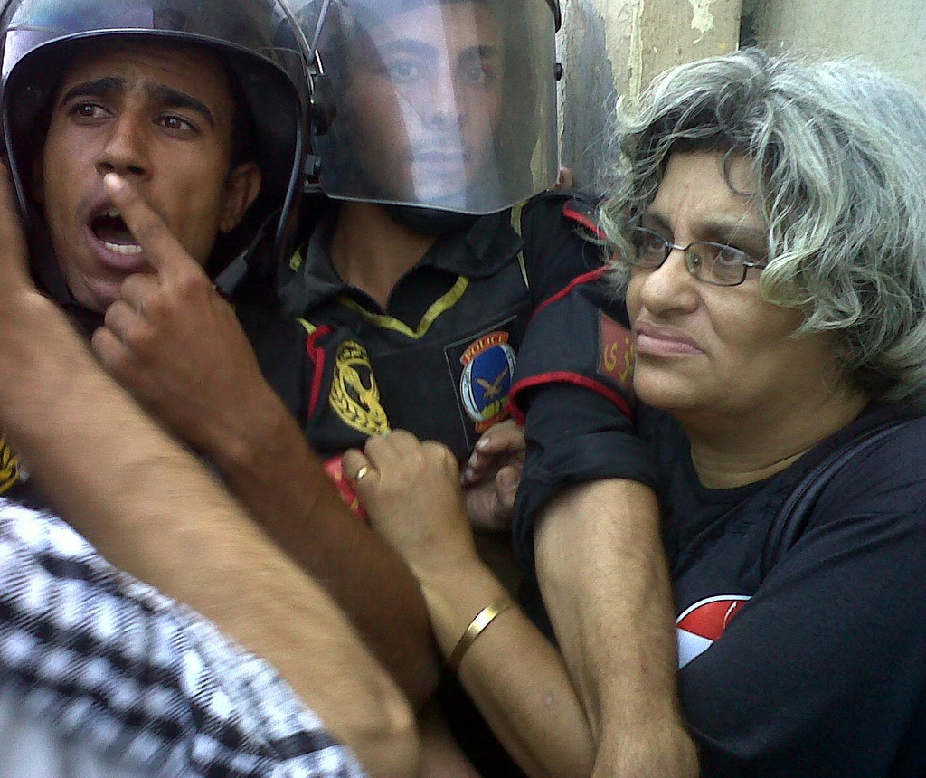 Laila Soueif insisting that she won't move as they tried to push her to tighten the circle around us